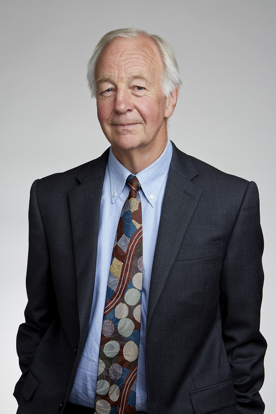 David Lodge FRS is a Research Fellow in the Department of Physiology and Pharmacology at the University of Bristol.